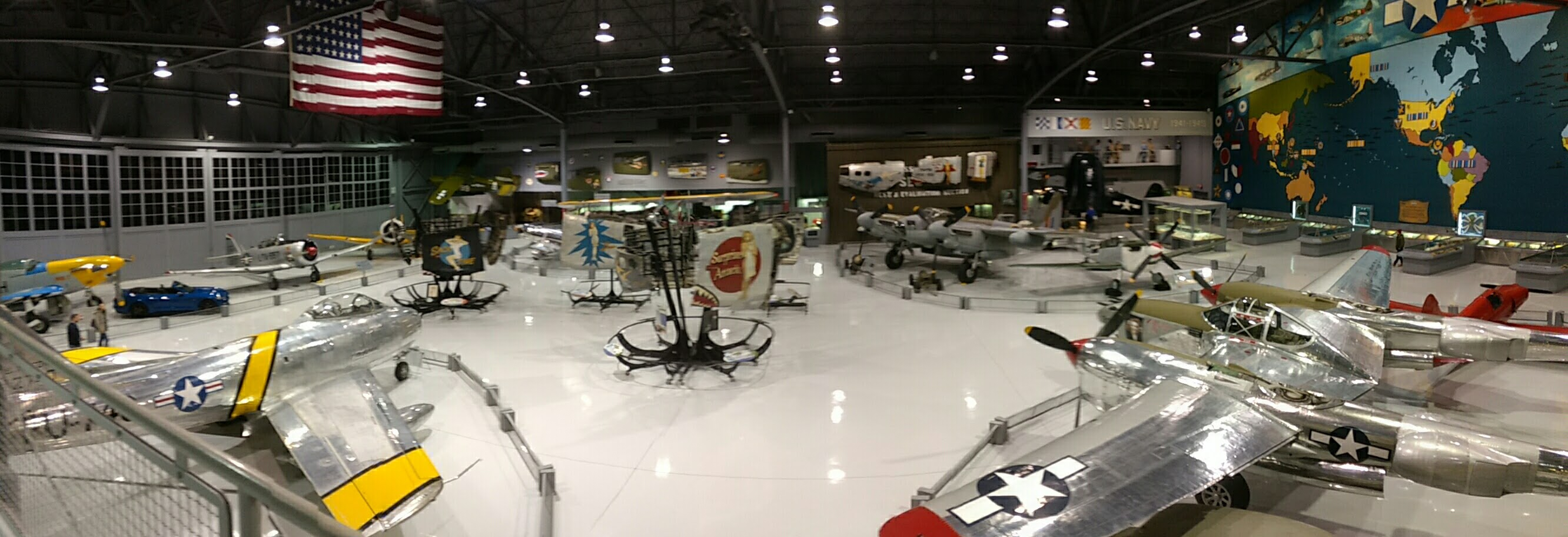 Panorama shot of the EAA Aviation Museum's Eagle Hangar.